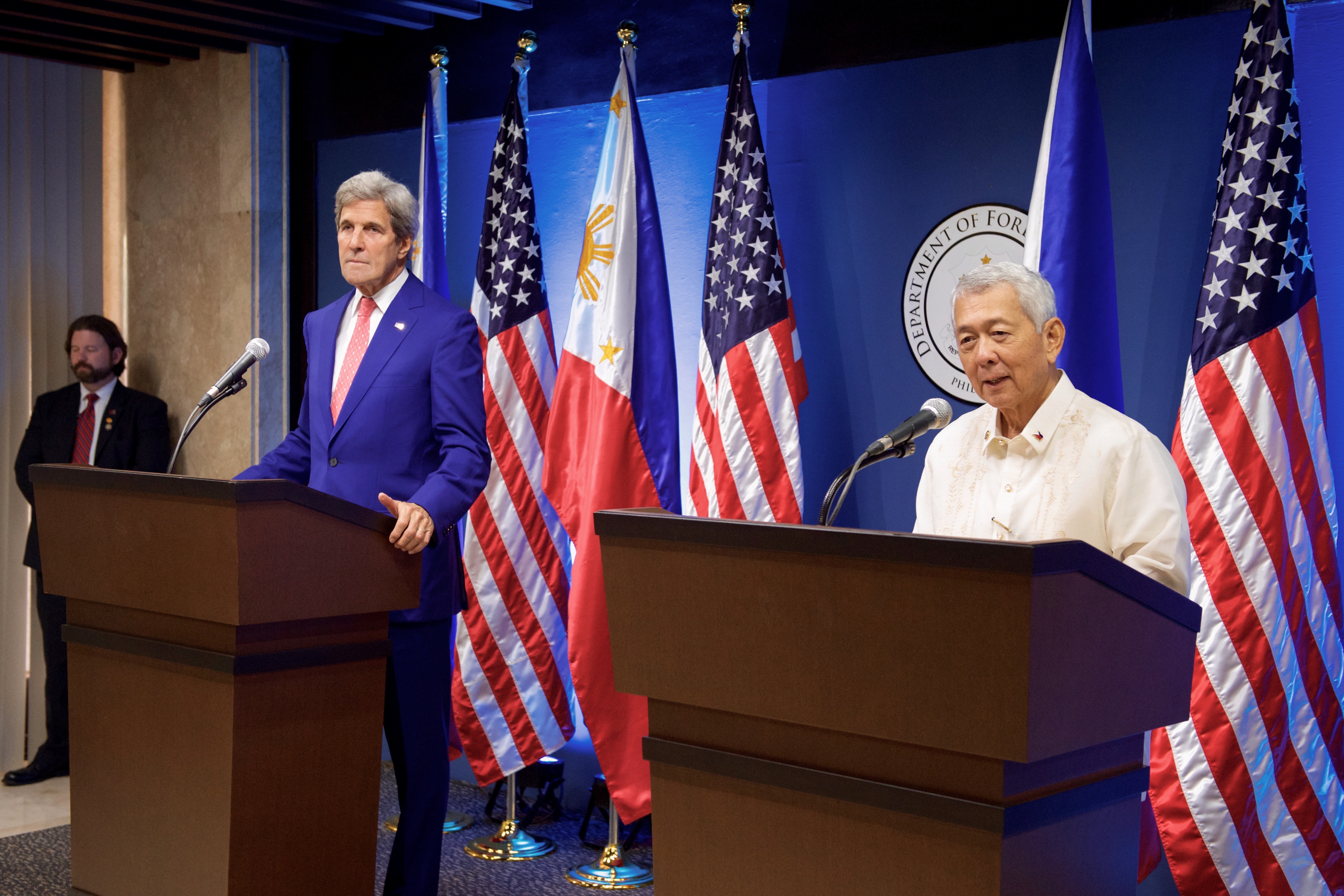 Philippines Foreign Secretary Perfecto Yasay addresses reporters at the Department of Foreign Affairs in Manila, Philippines, during a joint news conference with U.S. Secretary of State John Kerry that followed their bilateral meeting on July 27, 2016. [State Department Photo/Public Domain]